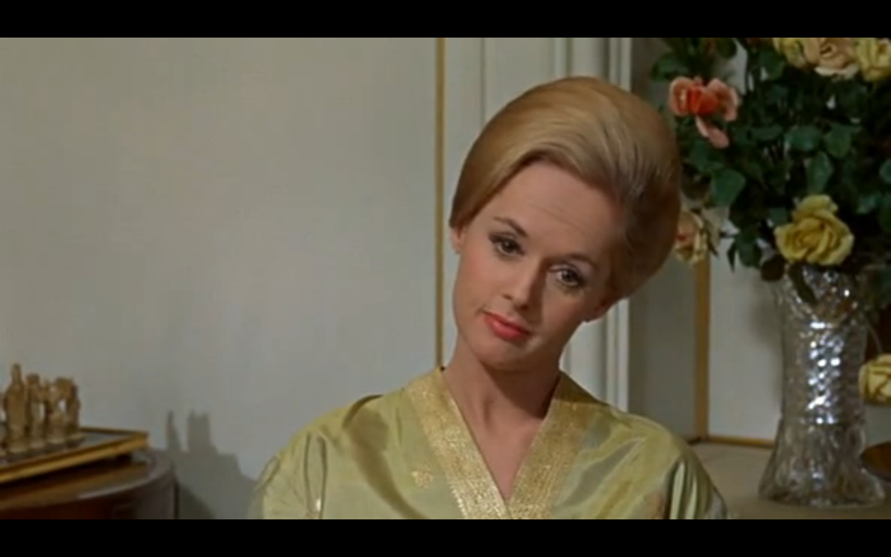 Tippi Hedren in A Countess from Hong Kong (1967) trailer.